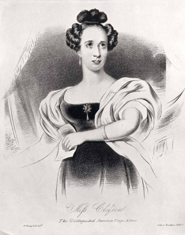 Miss Clifton as the "the Distinguished American Tragic Actress"